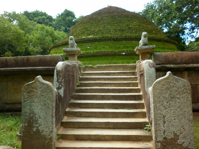 Magul Maha Viharaya is a site of an ancient Buddhist temple situated in Lahugala, Eastern Sri Lanka.